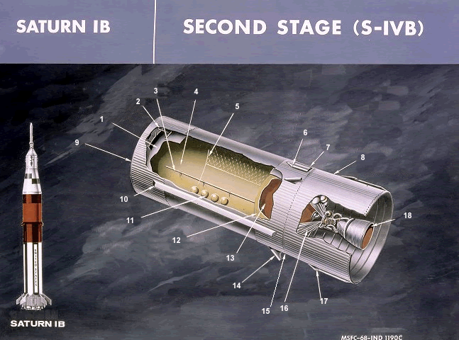 Saturn IB second stage the SIV-B Forward bulkhead LH2 vent Fuel level sensors Liquid hydrogen tank 3D insulation Auxiliary propulsion system module (2) Aft skirt Aft interstage Forward skirt Cable tunel Cold helium spheres Common bulkhead Liquid oxygen tank Ullage motors (3) Separation plane Thrust structure Retro rockets J-2 engine